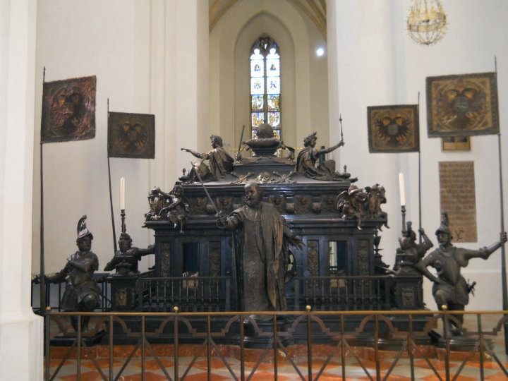 Tomb of Holy Roman Emperor Ludwig IV the Bavarian, Frauenkirche, Munich